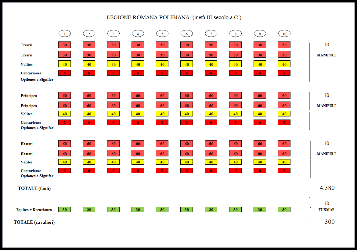 Roman legion at the time of Cannae's battle (216 BC) in Polybius' description - tactic movements